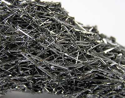 Jamesonite Locality: Zacatecas, Mexico (Locality at ) Size: 11.3 x 3.9 x 2.5 cm. Jamesonite (Lead Iron Antimony Sulfide) is one of a few sulfide minerals that form fine acicular crystals that appear as hair-like fibers. Jamesonite has been called feather ore and grey antimony.